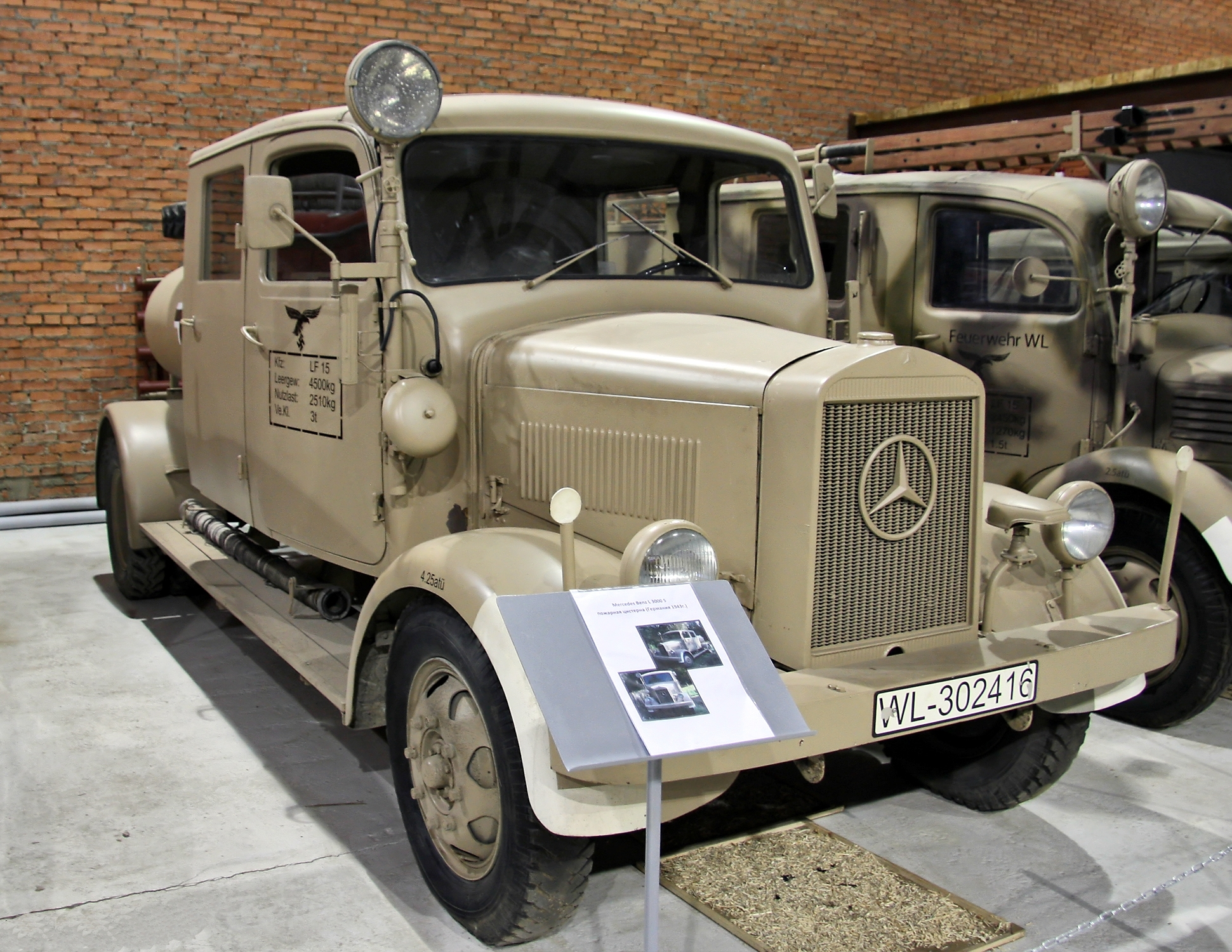 A Mercedes-Benz L 3000S truck in a newly opened military technical museum in Noginsk district, Russia.